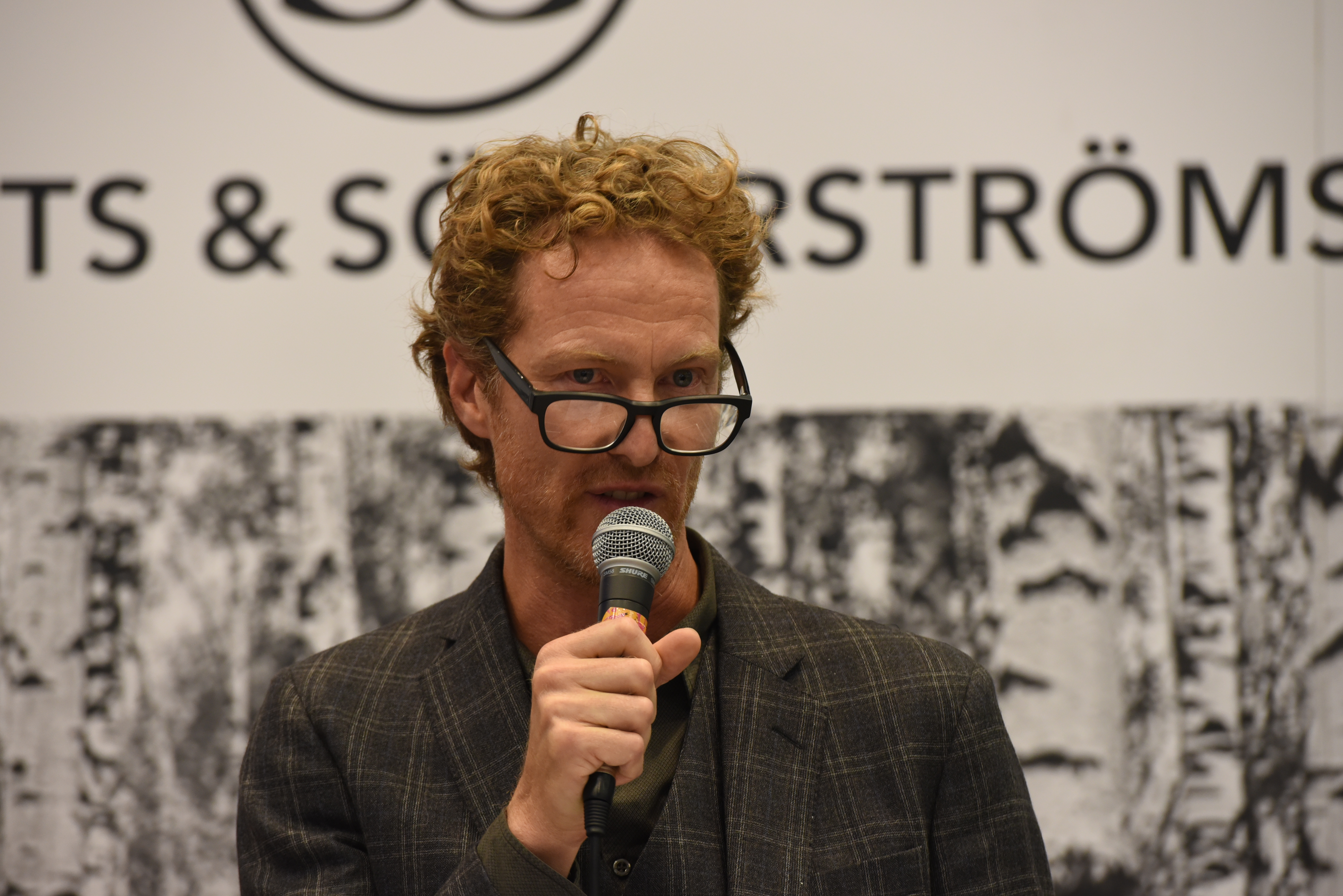 The Finnish Swede actor Johan Fagerudd at Göteborg Book Fair 2018.